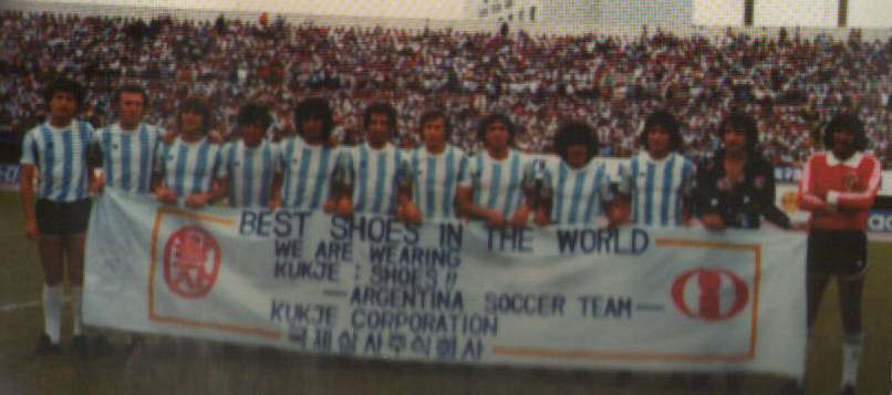 Racing de Córdoba in Presidents Cup 1981.